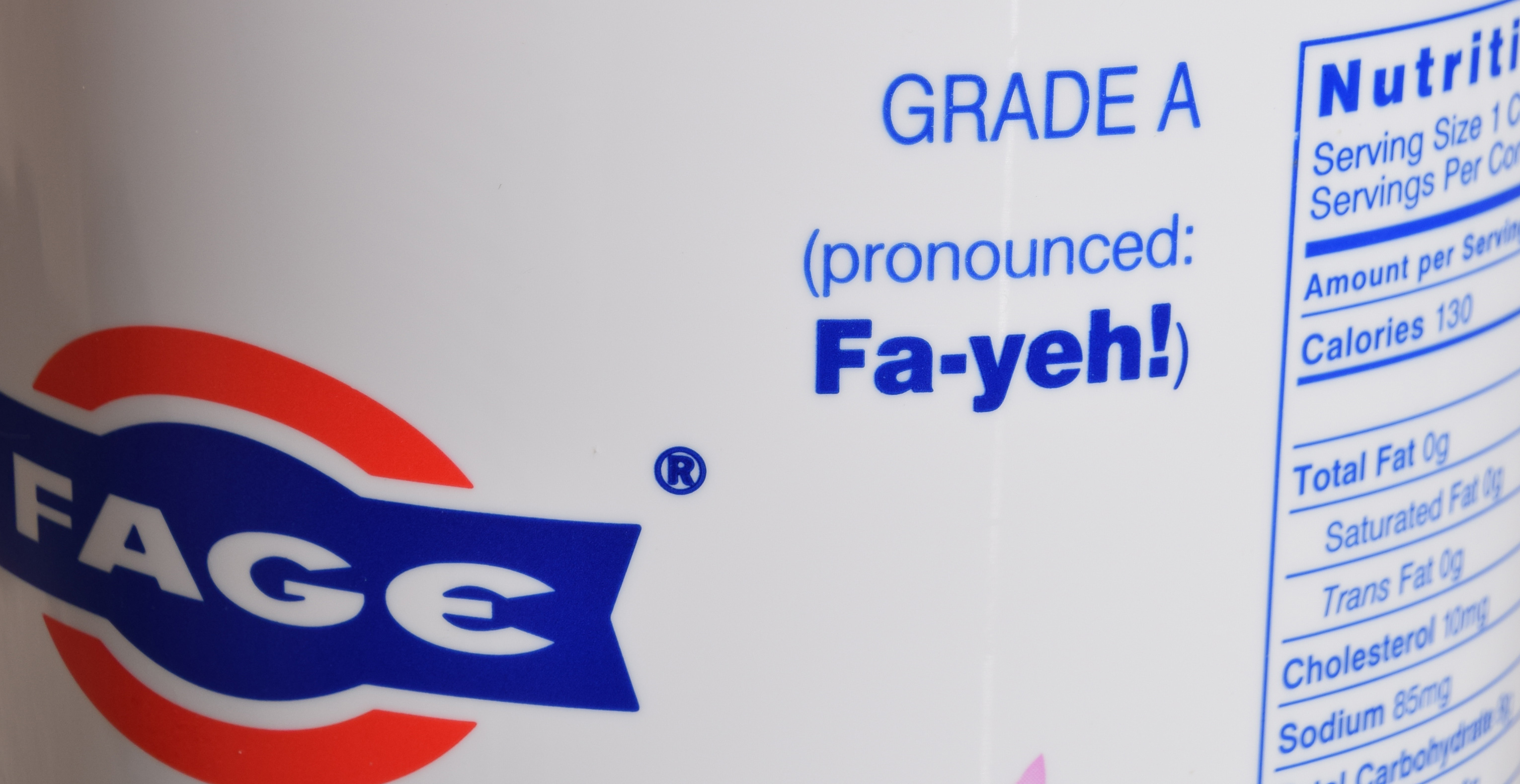 Fage is pronounced "Fa-yeh" as printed on the container of the company's Greek style yogourt, sold in Hawaii, USA.